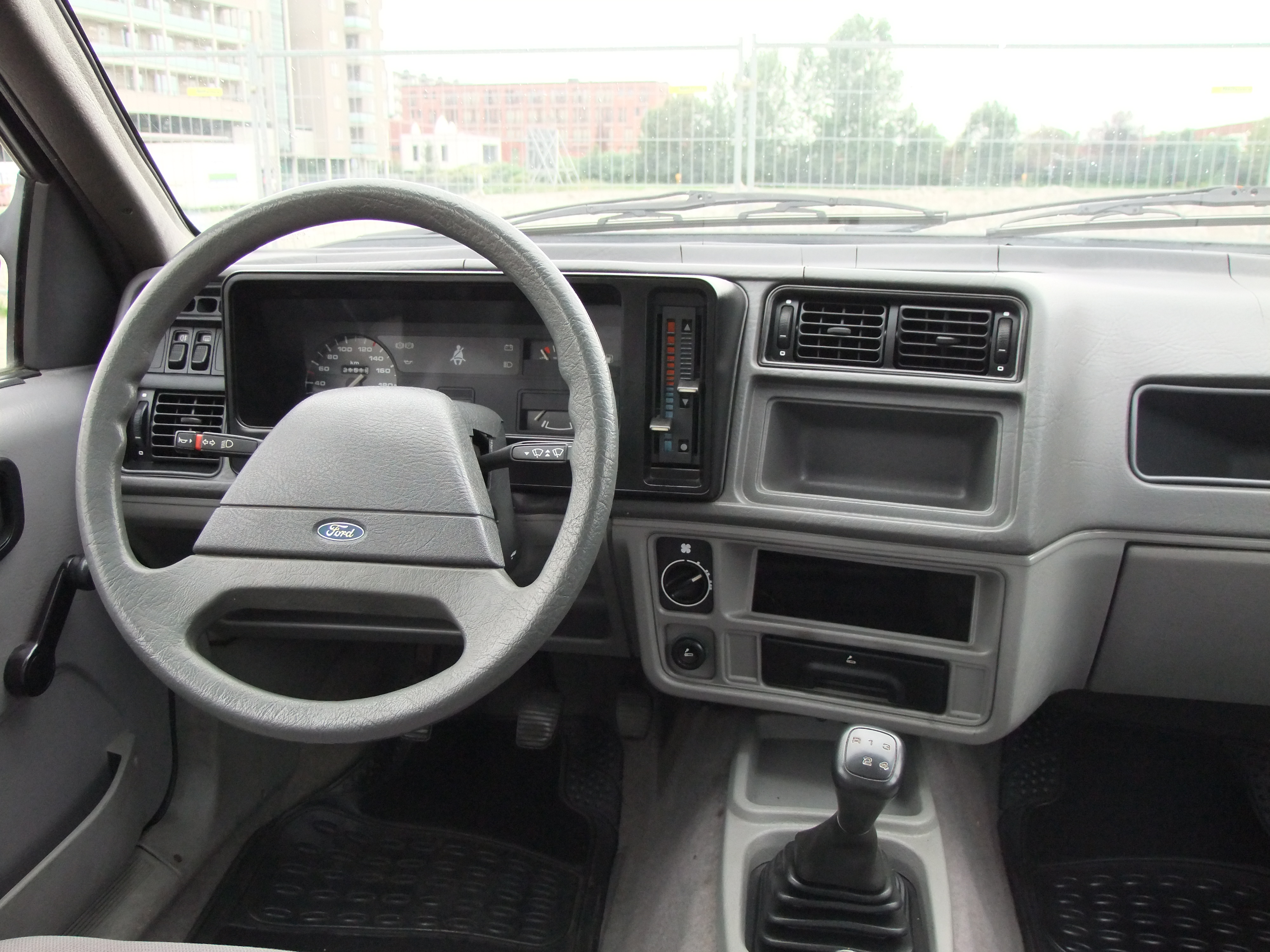 This is the dashboard of an early 1983 Ford Sierra base model.